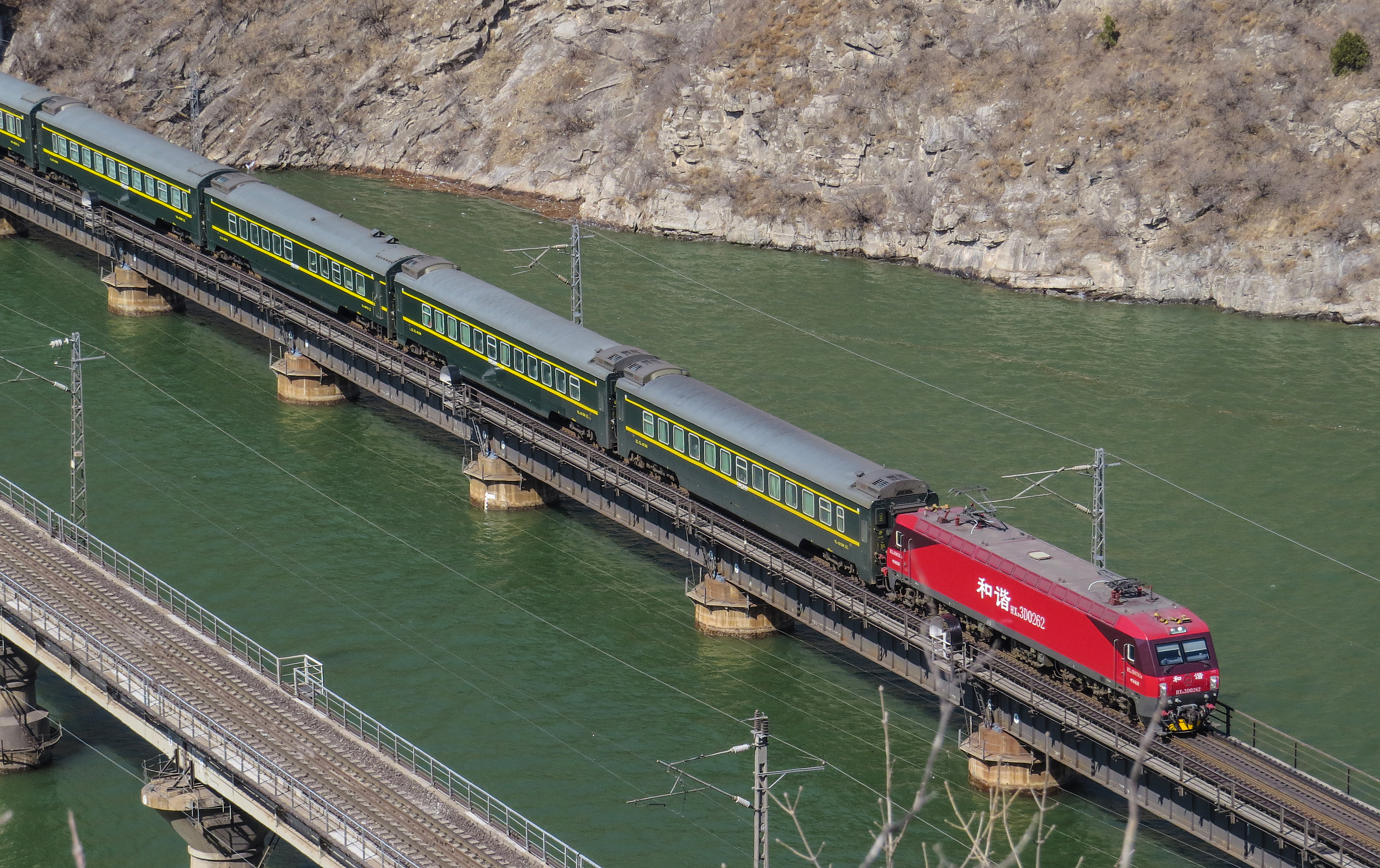 Taken from a brambled hill. I didn't climb to the fortress due to time issues.